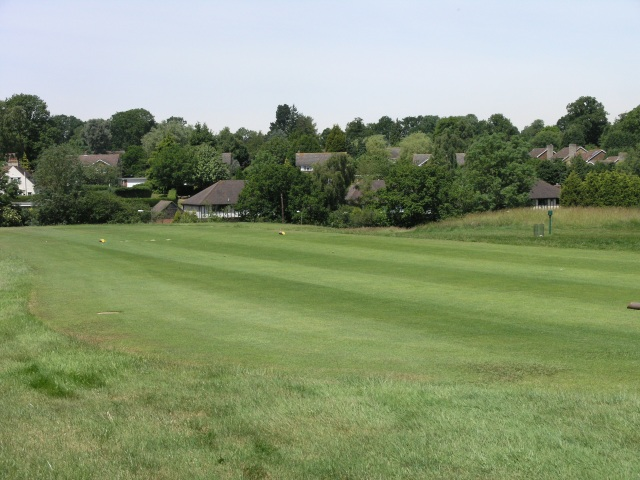 The Third Tee. The Third Tee at Surrey Downs Golf Club, with part of Kingswood in the background (housing of this nature occupies most of this square).